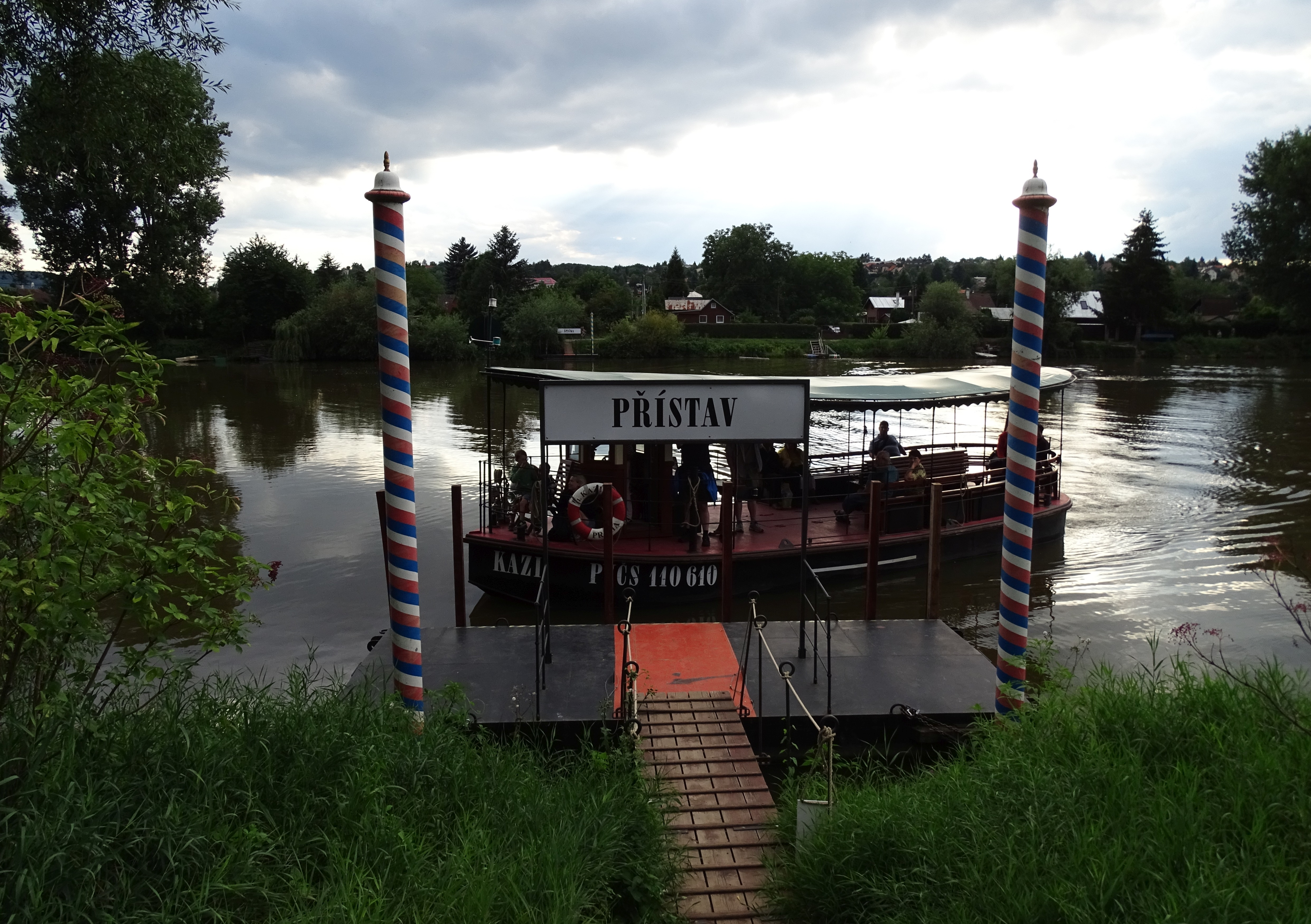 Prague-Lipence, Kazín, and Černošice-Dolní Mokropsy, Prague-West District, Czech Republic. Kazín Ferry, Kazi boat.